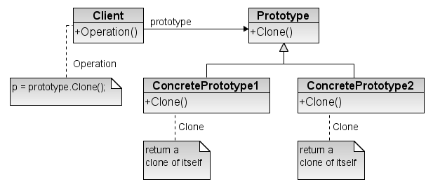 The UML diagram that illustrates the Prototype design pattern